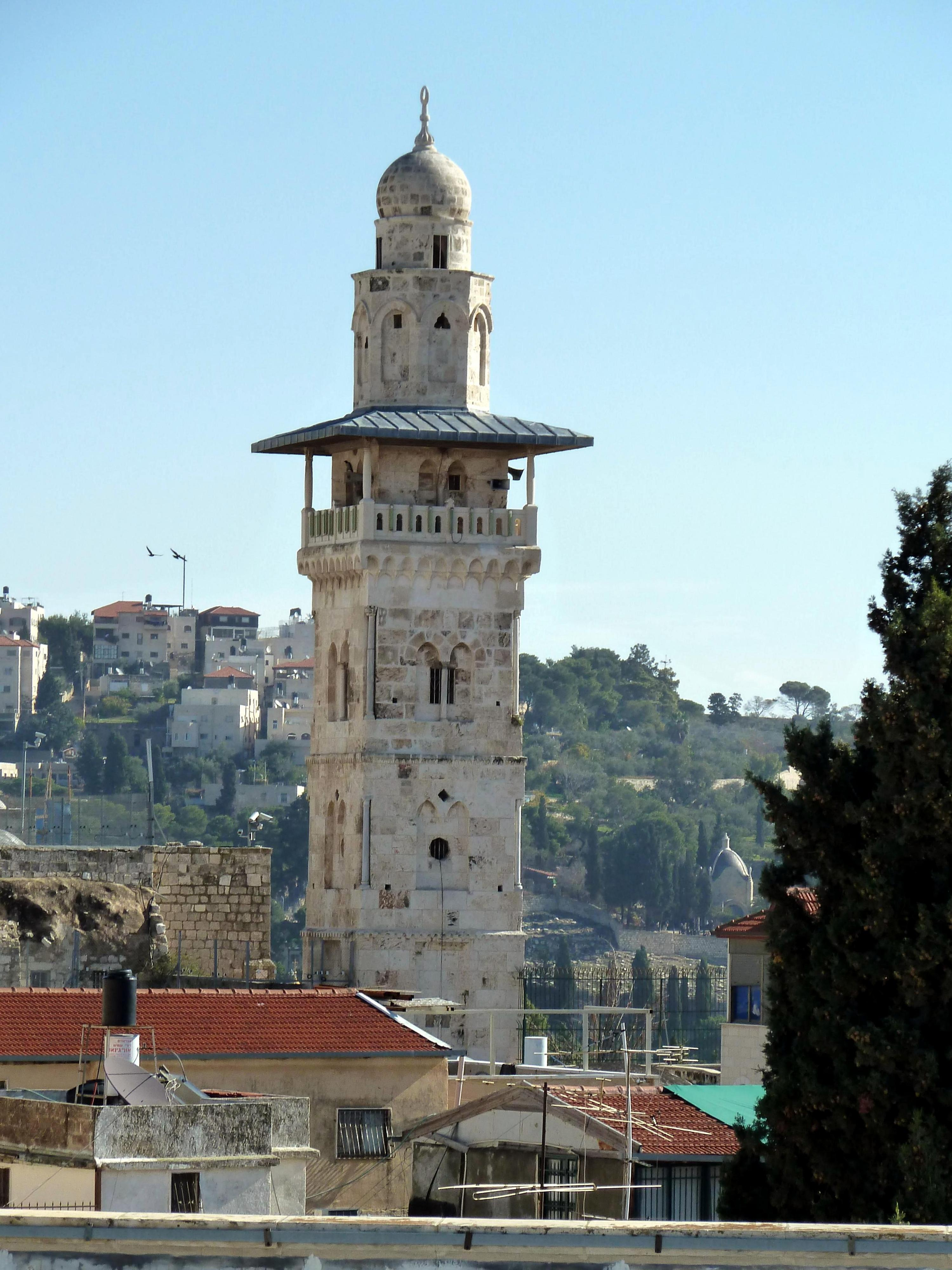 Old Jerusalem, View from the roof terrace of the Austrian Hospice, looking towards east. Antonia tower (or Bani Ghanim Minaret, in arabic El-Ghawanima, in hebrew בני ע'ואנימה).